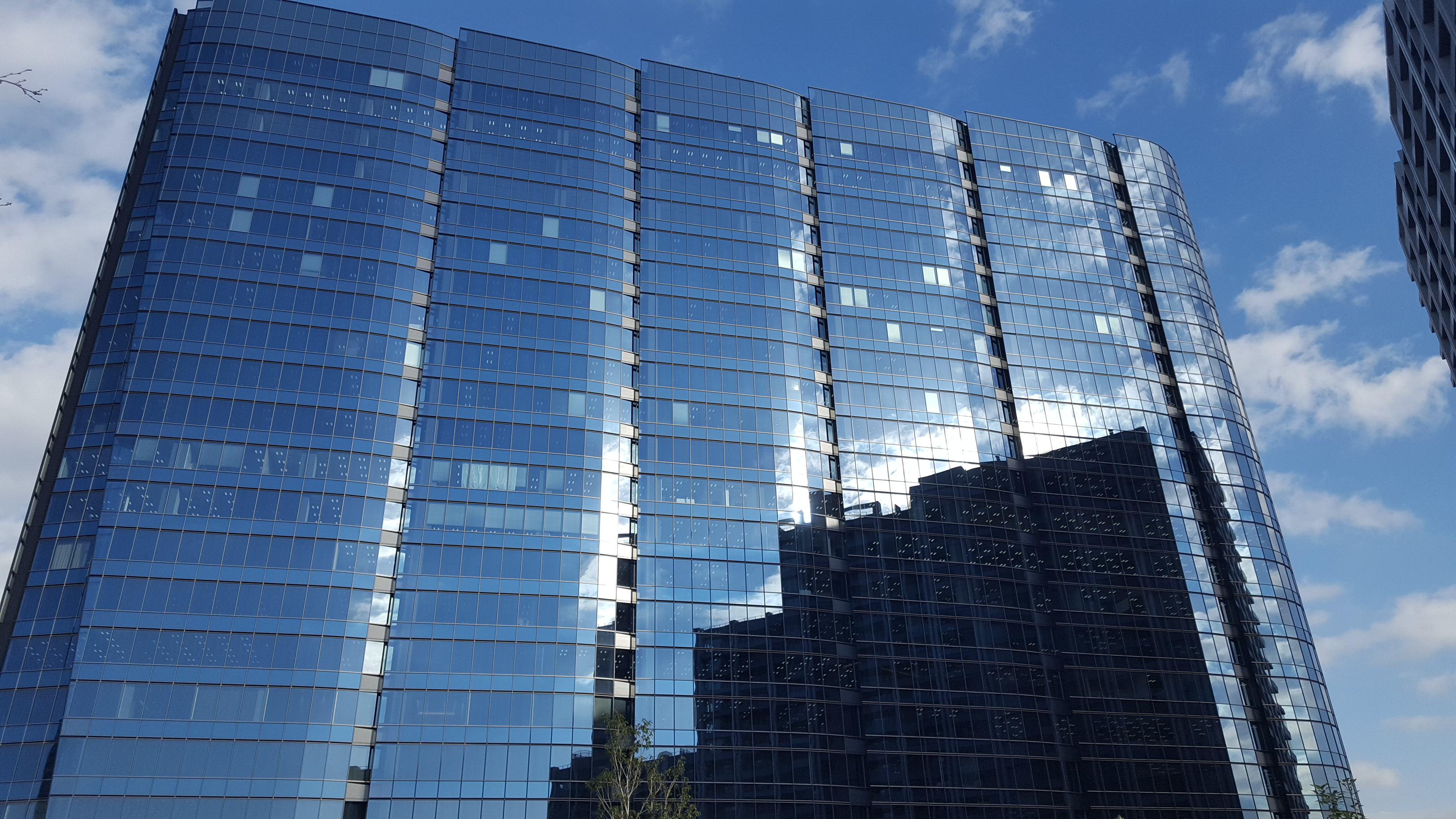 Sega's corporate headquarters as of 2018 at a shared corporate megacomplex building. Sega is one of several companies that have offices in this building. The building name is 住友不動産大崎ガーデンタワー . The address is 東京都品川区西品川一丁目1番1号.